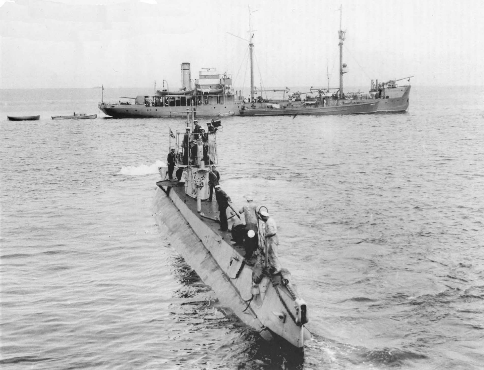 Submarine Kommunist (Submarine N 13) and gunboat Krasnaya Gruziya.